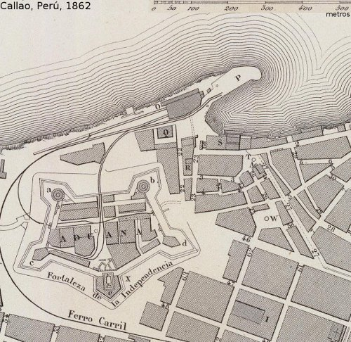 partial reproduction of a PD-old map from Wikicommons